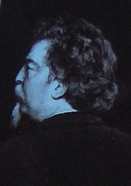 The Belgian sculptor Antoine-Félixe Bouré, detail from a group painting of the Société Libre des Beaux-Arts by Edmond Lambrichs (1830–1887)